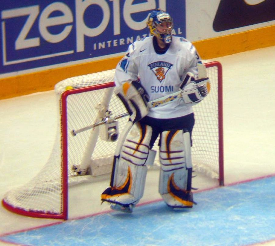 Kari Lehtonen, finnish ice hockey goaltender Semifinal Russia - Finland 1:2 OT; IIHF WC Moscow 2007